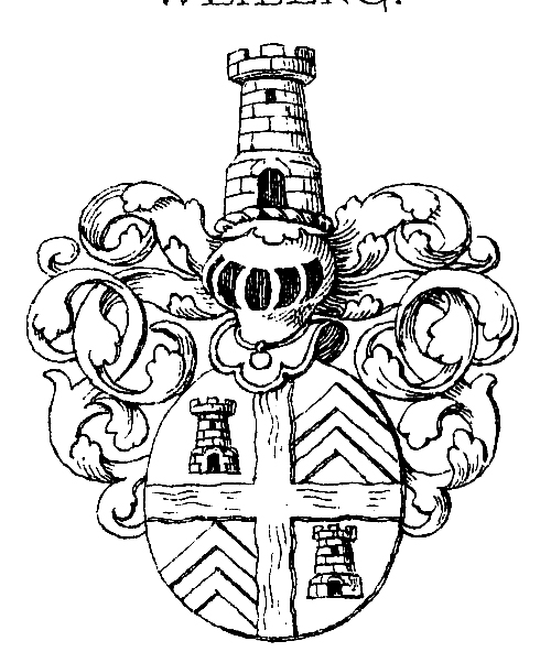 Werentskiold or Werenschiold coat of arms by H. B. Storck